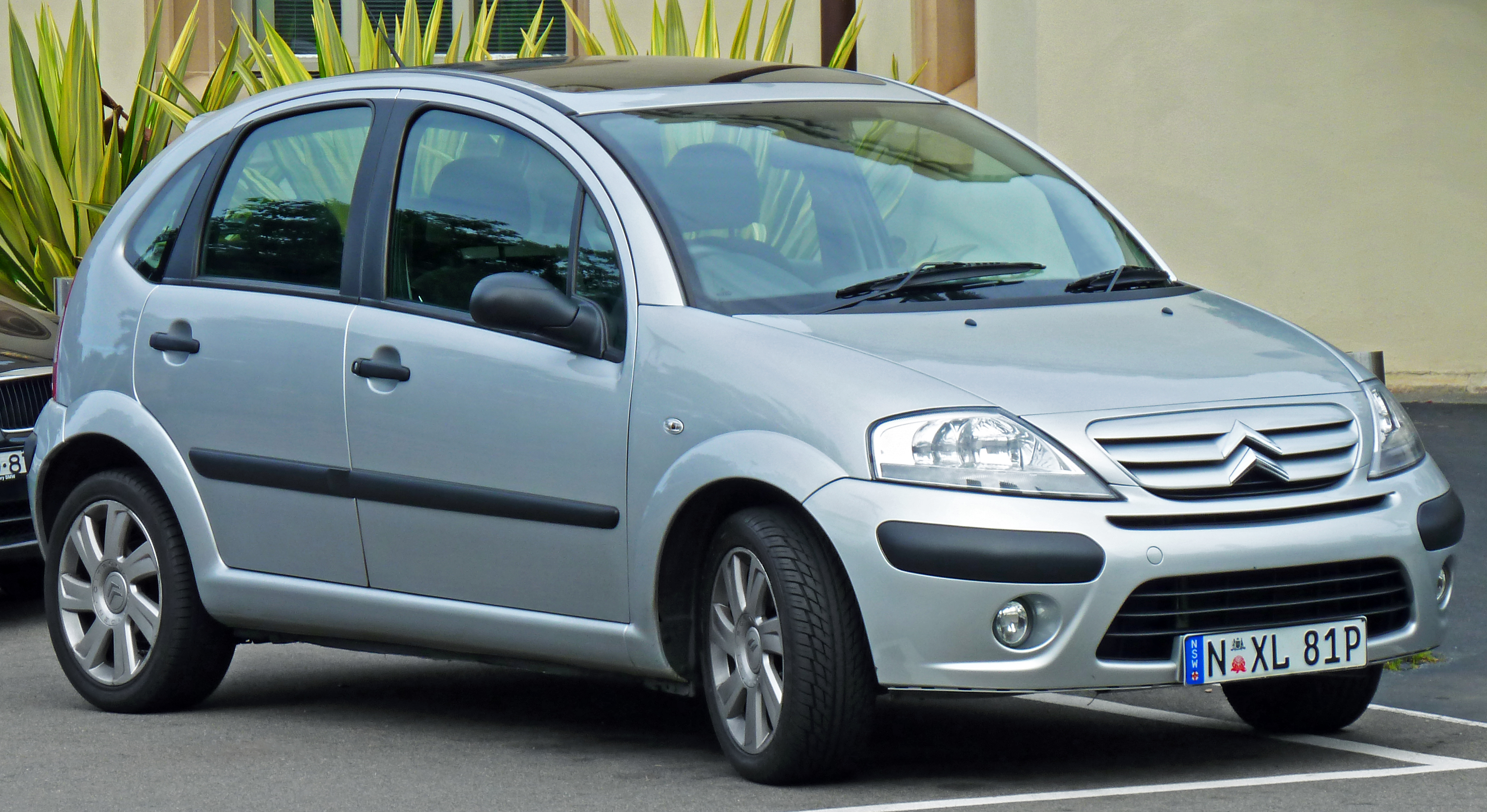 2006 Citroën C3 (MY06) Exclusive hatchback. Photographed on Conservatorium Road, Sydney, New South Wales, Australia.